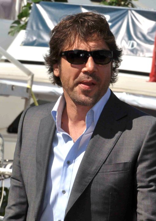 Javier Bardem at the Cannes Film festival